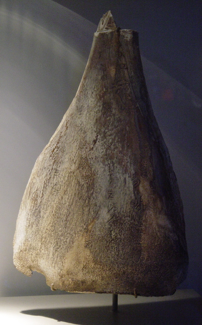 Oracle bone with inscriptions This is a replica(?) of an oracle bone with ancient Chinese oracle scripts inscribed on it. Since this is a replica, the color may not be truthful to the real specimen. This photo was taken in July 2004 from an exhibit at Chabot Space and Science Center in Oakland, California.